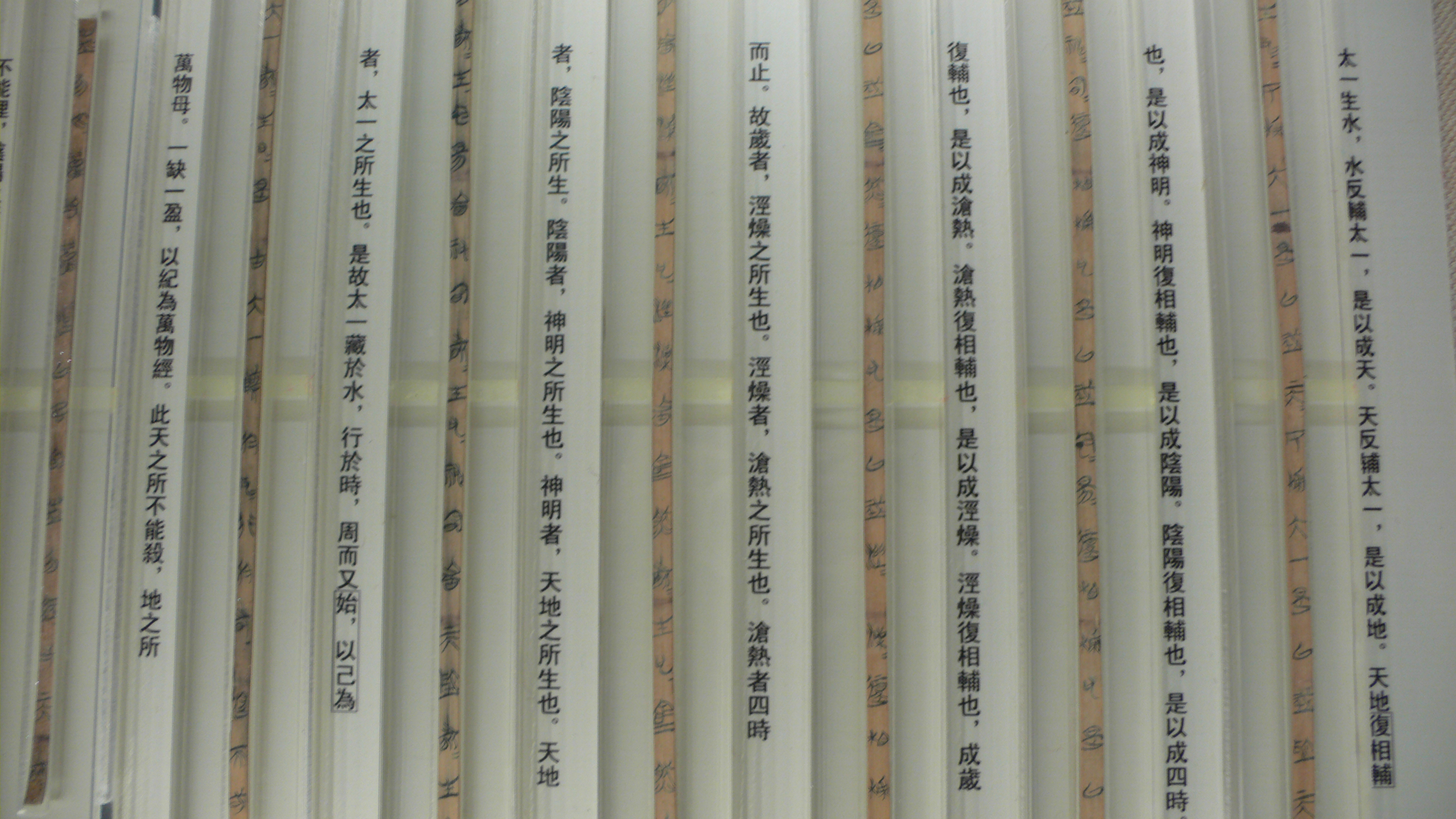 Partial view of the Guodian Chu Slips (with side description and explanation in white) at Hubei Provincial Museum.